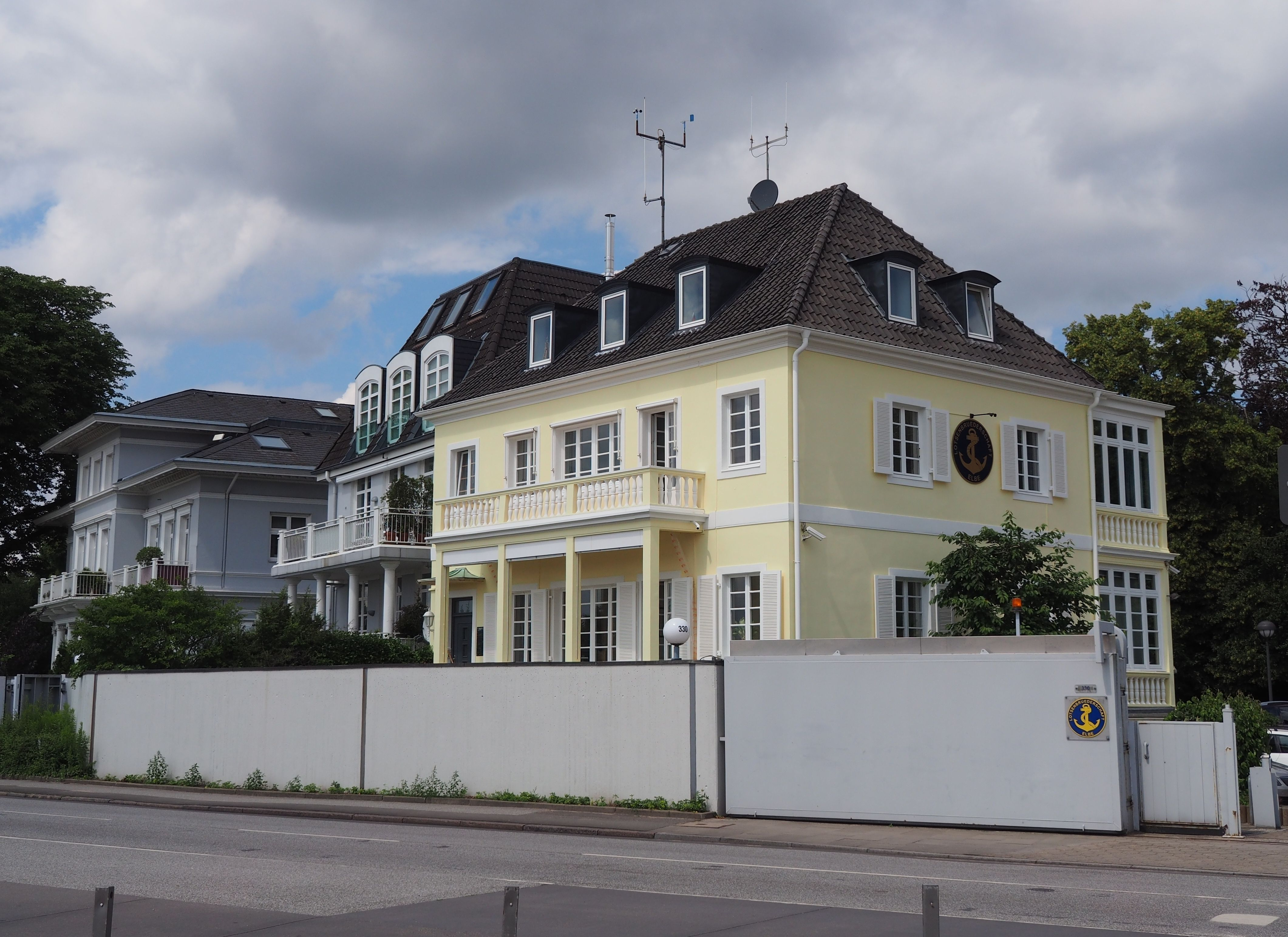 Pilot Station Lotsenbruederschaft Elbe, Hamburg